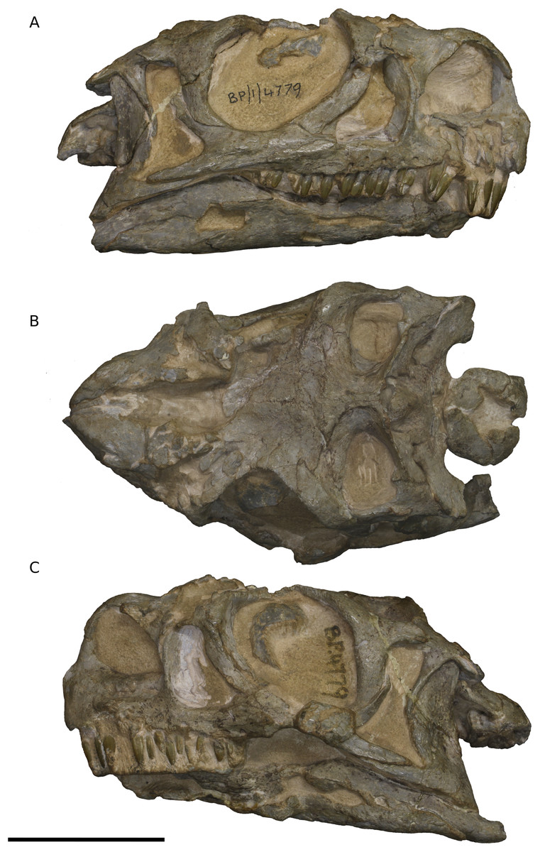 Photographs of the skull of BP/1/4779. (A) Right lateral view. (B) Dorsal view. (C) Left lateral view. Scale bar represents 10 mm. Photographs by Kimberley E.J. Chapelle.